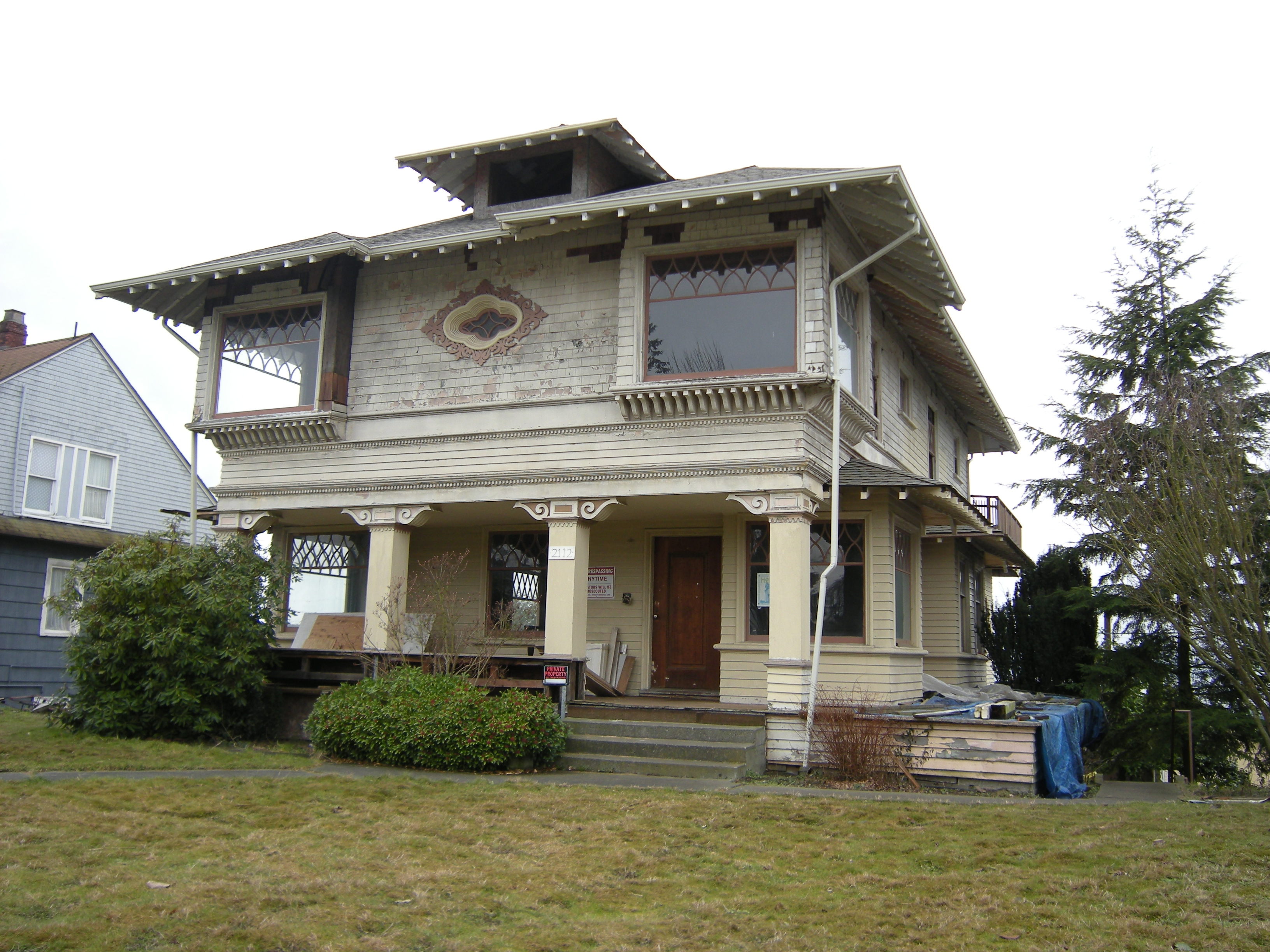 2112 Rucker Avenue (the Howard S. Wright House), Bayside District, Everett, Washington, USA, undergoing renovation at the time of this photo under the aegis of Historic Everett. Howard S. Wright was founder of the construction company that built, among other things, Seattle's Space Needle.